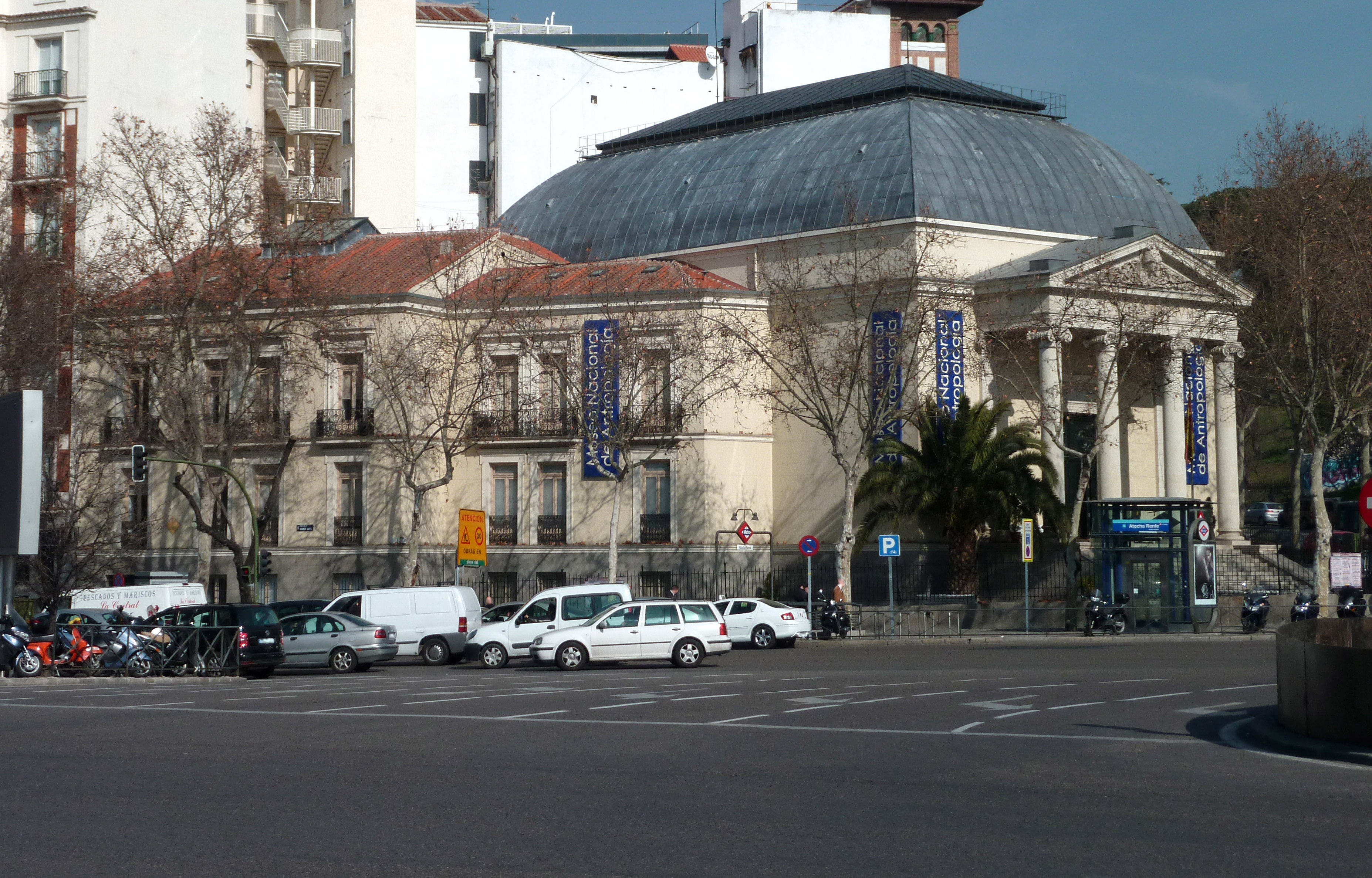 Spanish National Museum of Anthropology, in Madrid.